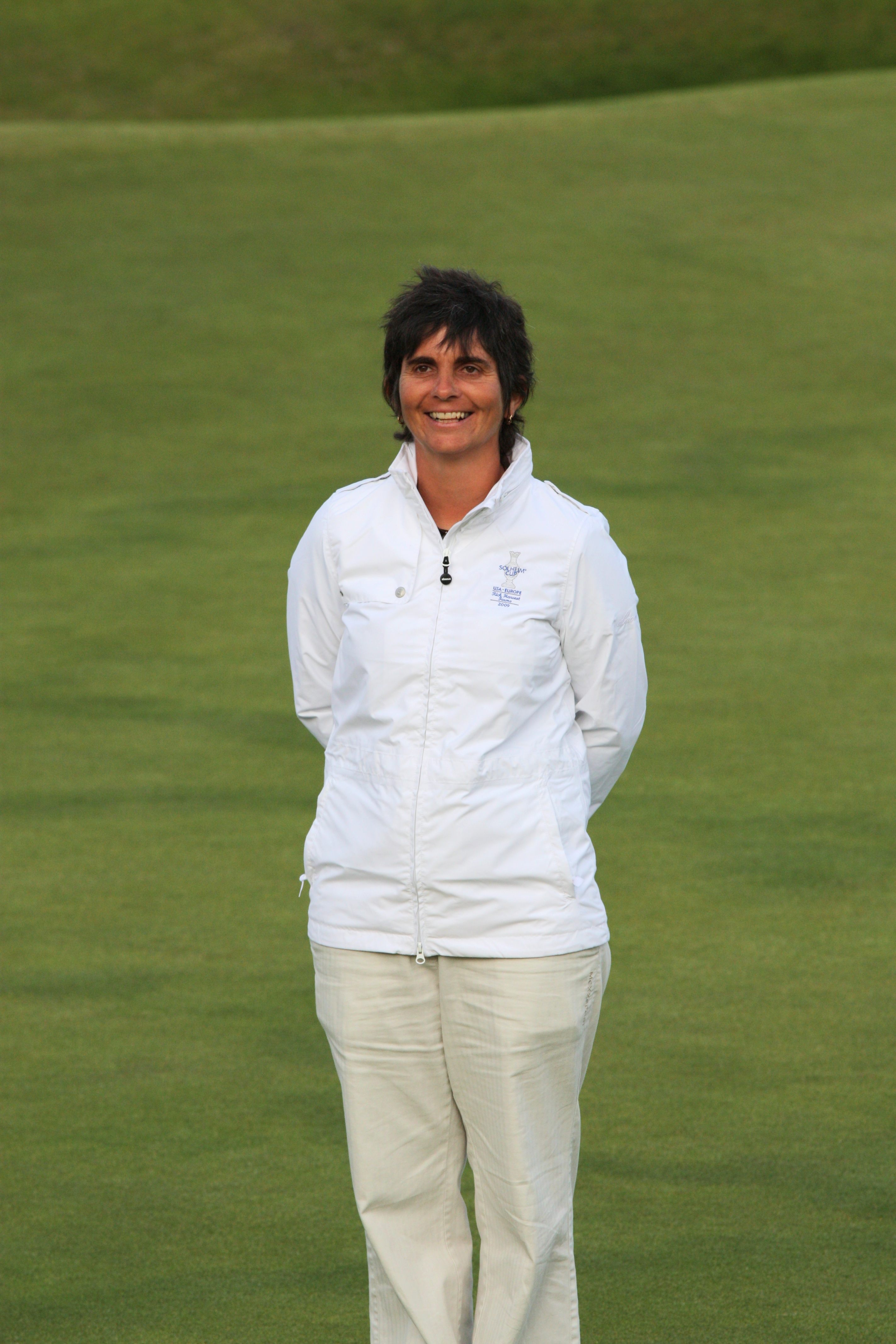 LYTHAM ST ANNES, UNITED KINGDOM - AUGUST 02: Joanne Morley of England, assistant captain of the European Solheim Cup Team, posing for a photograph after announcement of Solheim Cup teams, which followed final round of the 2009 Ricoh Women's British Open held at Royal Lytham & St Annes on August 2, 2009 in Lytham St Annes, England. (Photo by Wojciech Migda)